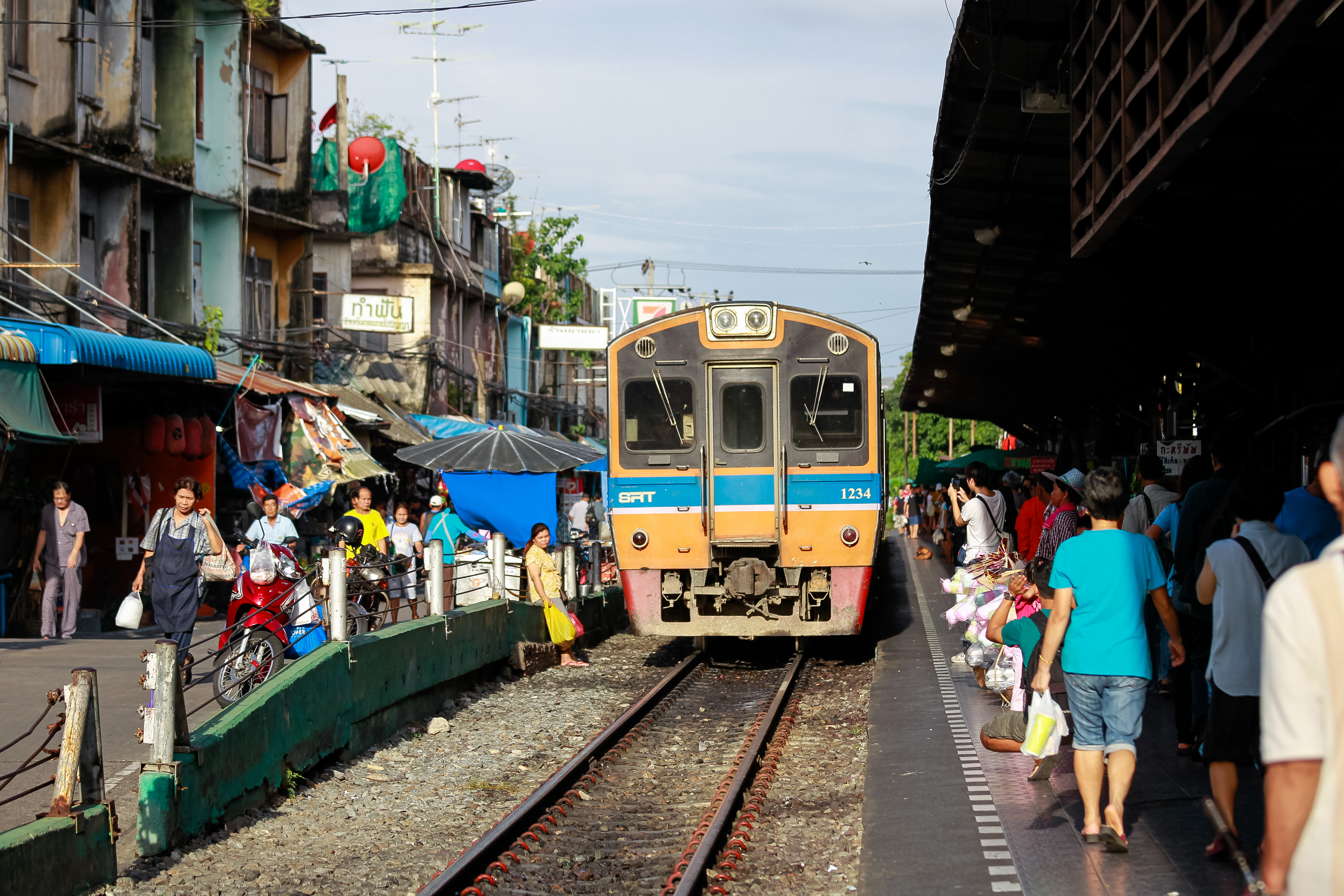 Wongwian Yai Railway Station, Bangkok, Thailand.